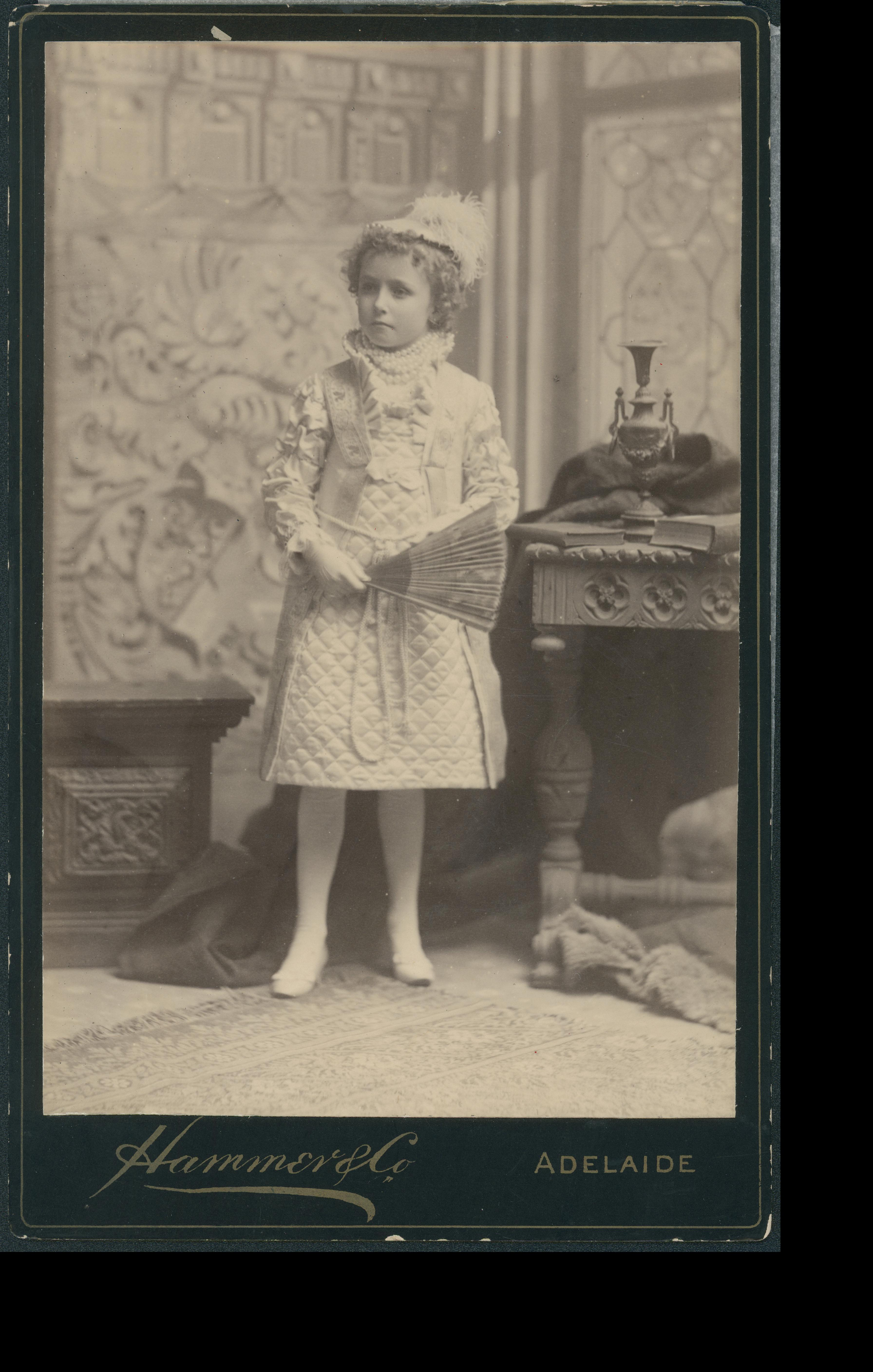 Edith A. Bonython aged 10 years old, dressed as Amy Robsart - Adelaide Mayoral Children's Fancy Dress Ball, 1887